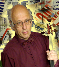 Portrait of Prof. Ventseslav Nikolov